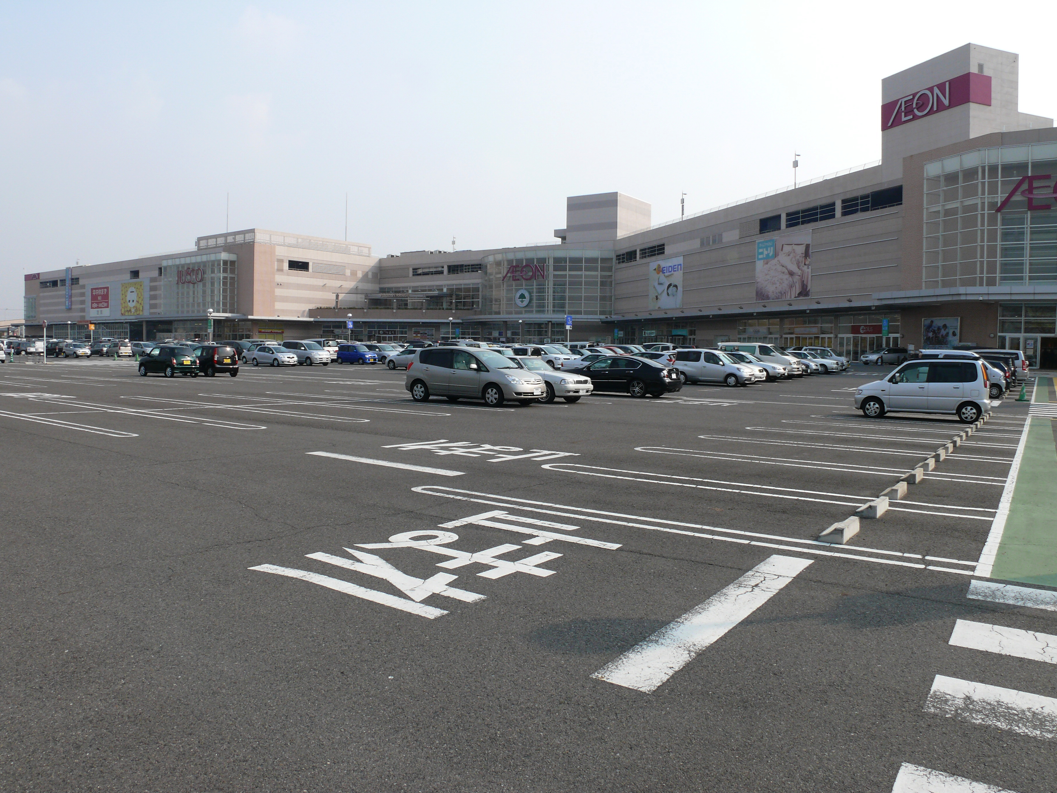 AEON Fuso Shopping Center.